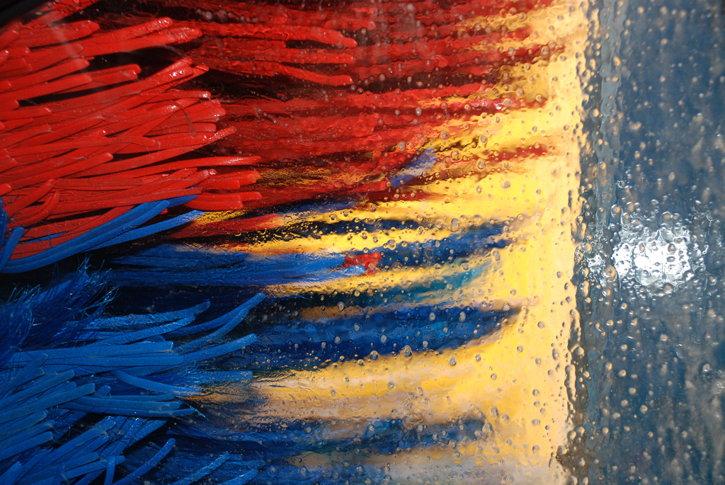 The typical car wash view from the inside of a car. The ride can sometime compare to a theme park joyride. Photography by Or Hiltch.